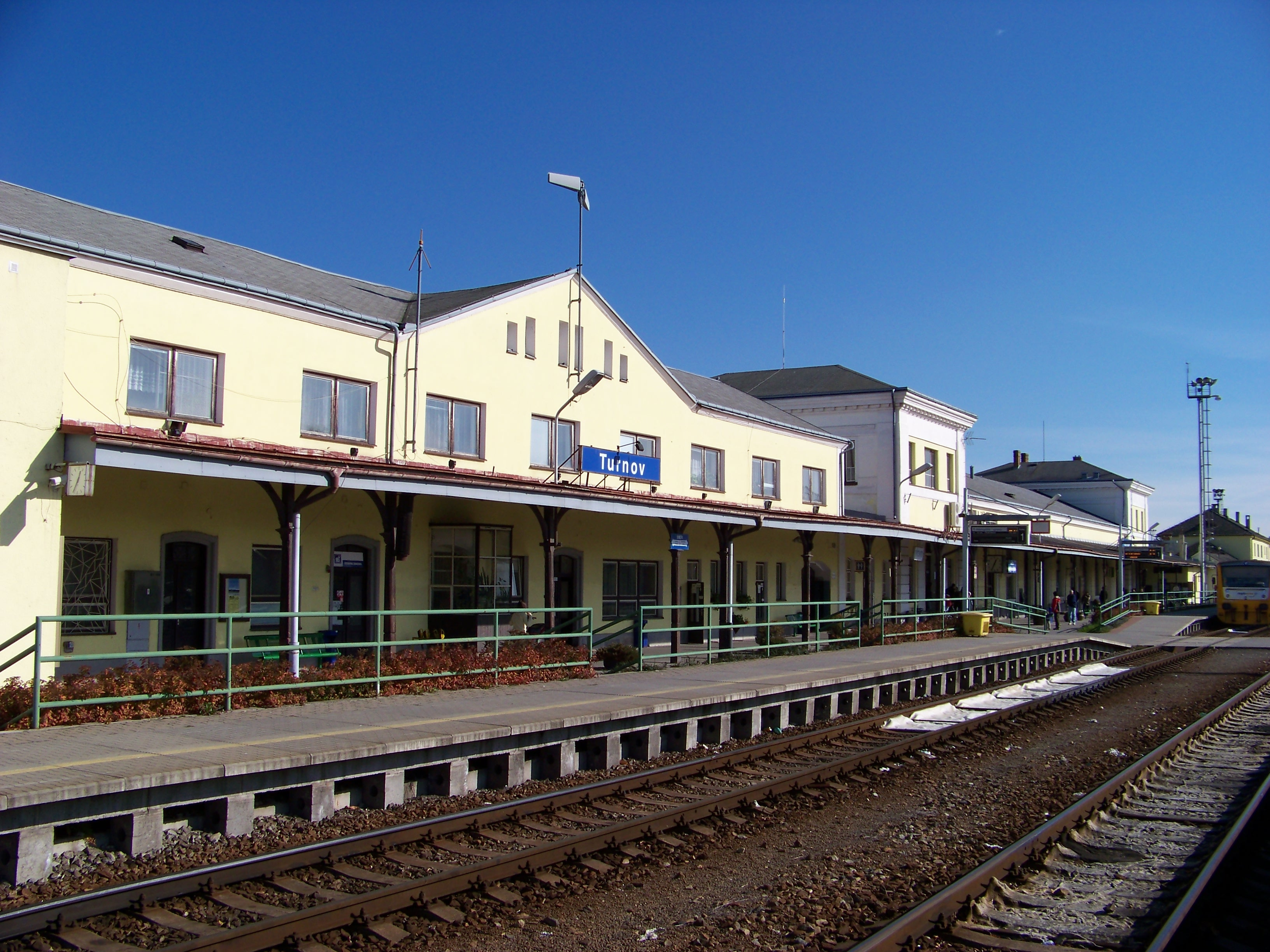 Turnov, Semily District, Liberec Region, the Czech Republic. Train station Turnov, from platforms. - Google Maps - Google Earth